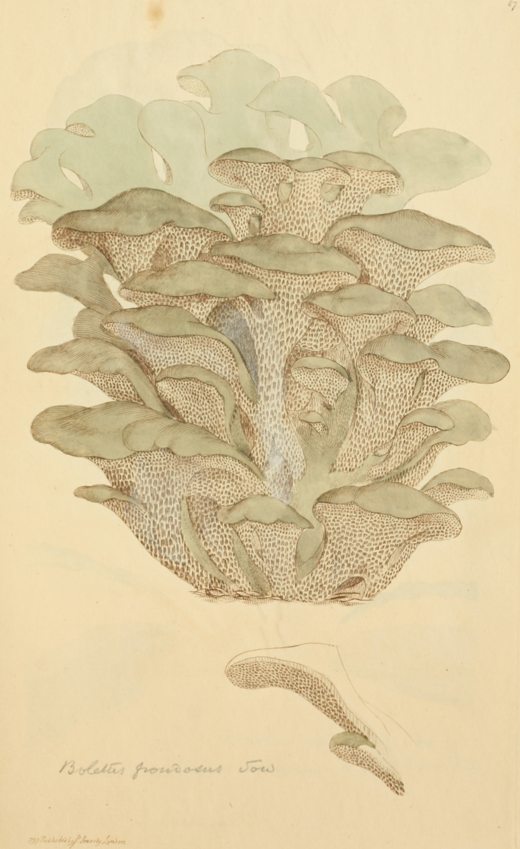 This is a plate from James Sowerby's Coloured Figures of English Fungi or Mushrooms.